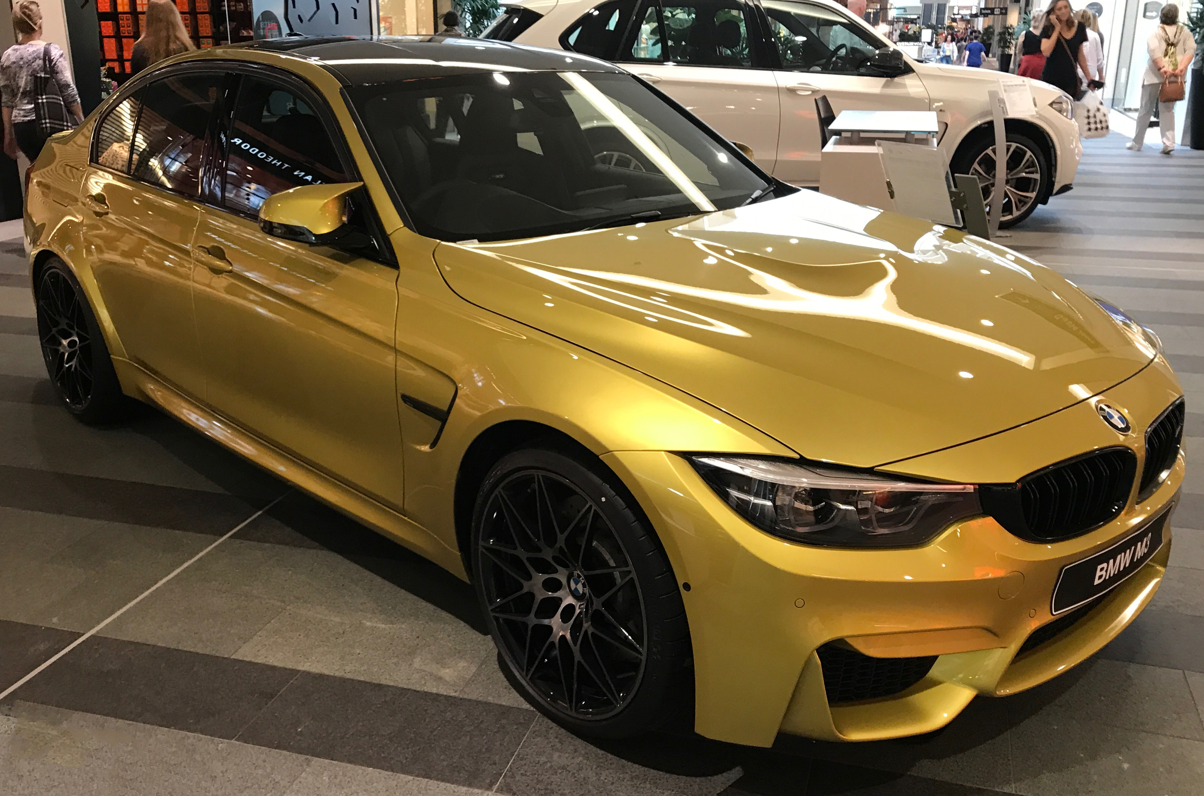 2017 BMW M3 (F80) sedan. Photographed at Claremont Quarter, Claremont, Western Australia, Australia.